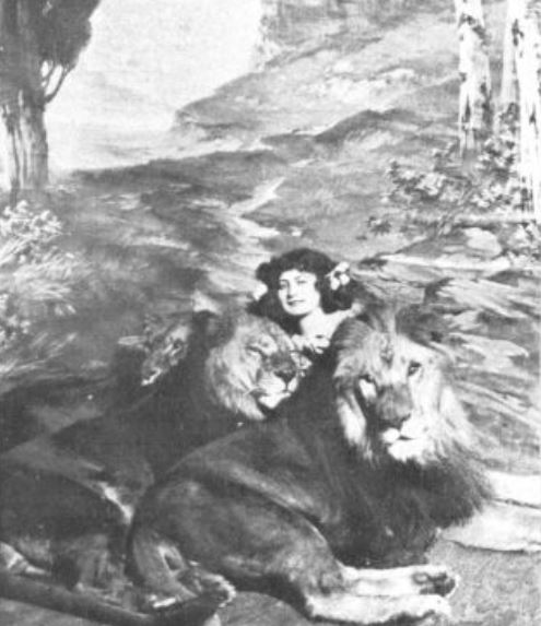 Austrian lion tamer, Tilly Bébé, 1907